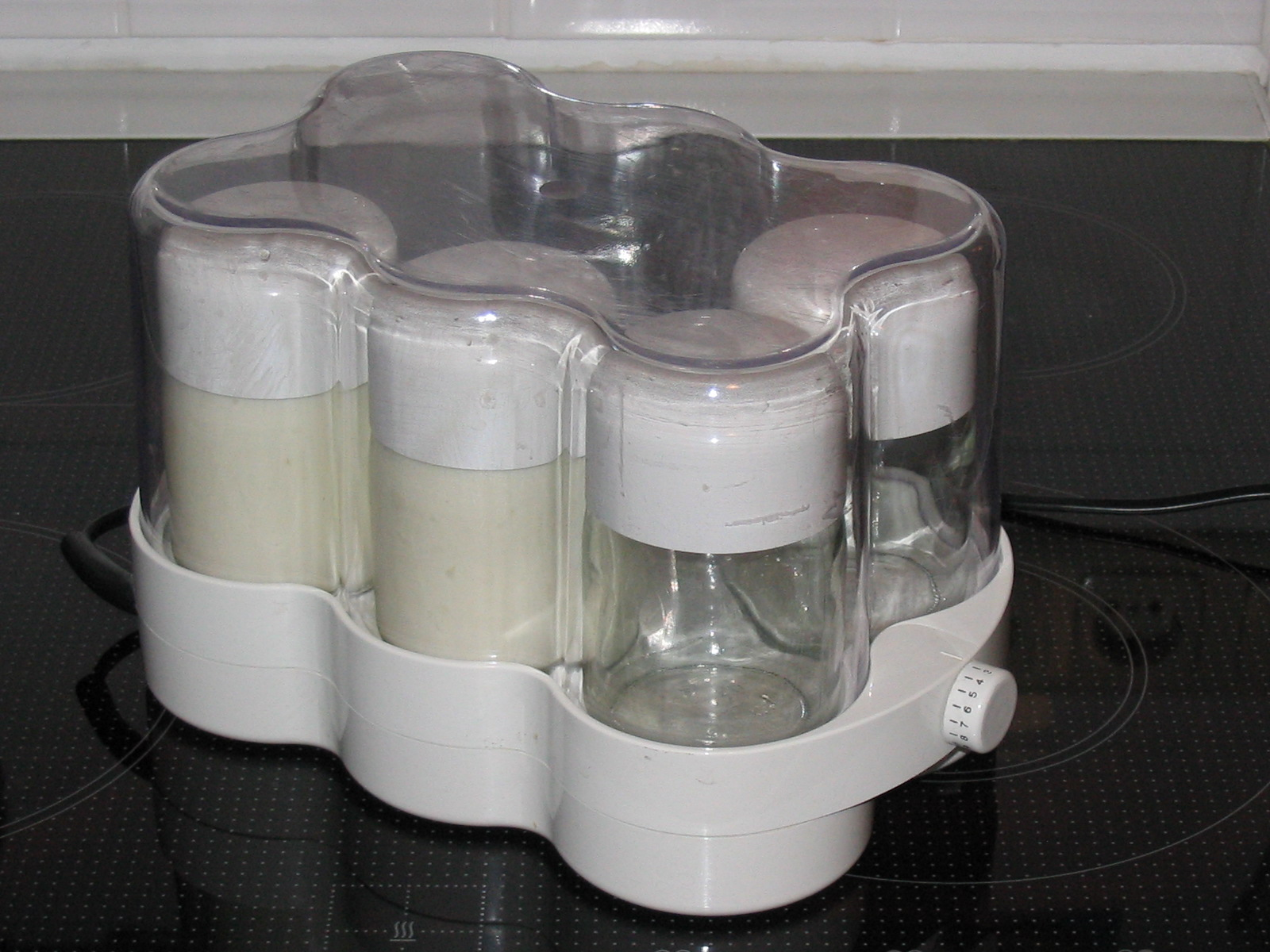 yoghurt maker